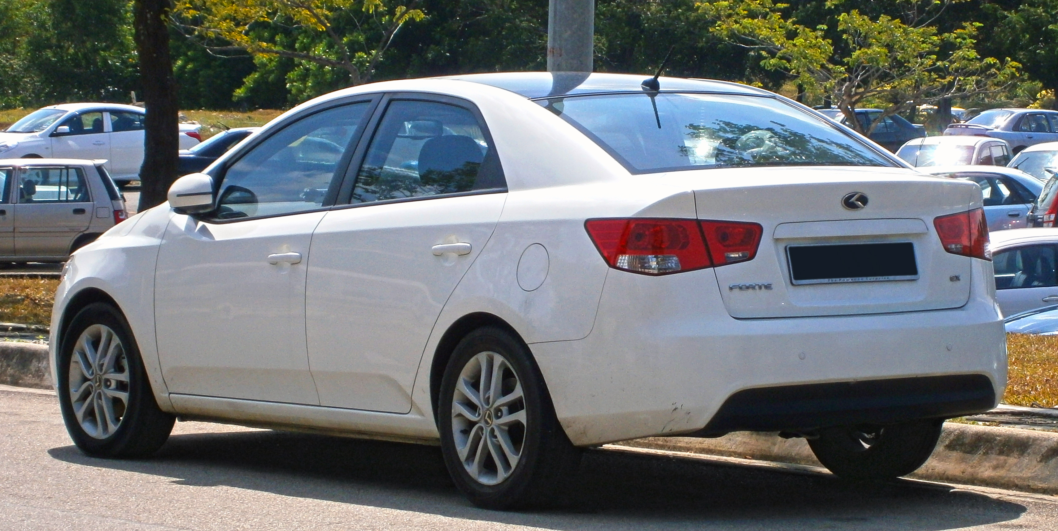 2012 Naza Forte 1.6 EX (modified) in Cyberjaya, Malaysia. Colour : Clear White Notes : Rims are non-standard. Naza badges have been replaced with Kia badges. Black-painted roof is non-standard.